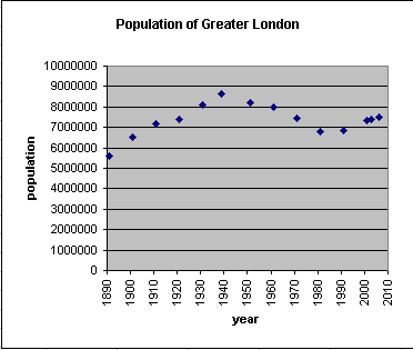 Graph of historical population of Greater London, 1891-2006